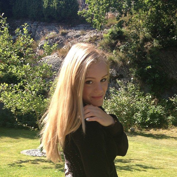 Mathilda Paradeiser July 2013